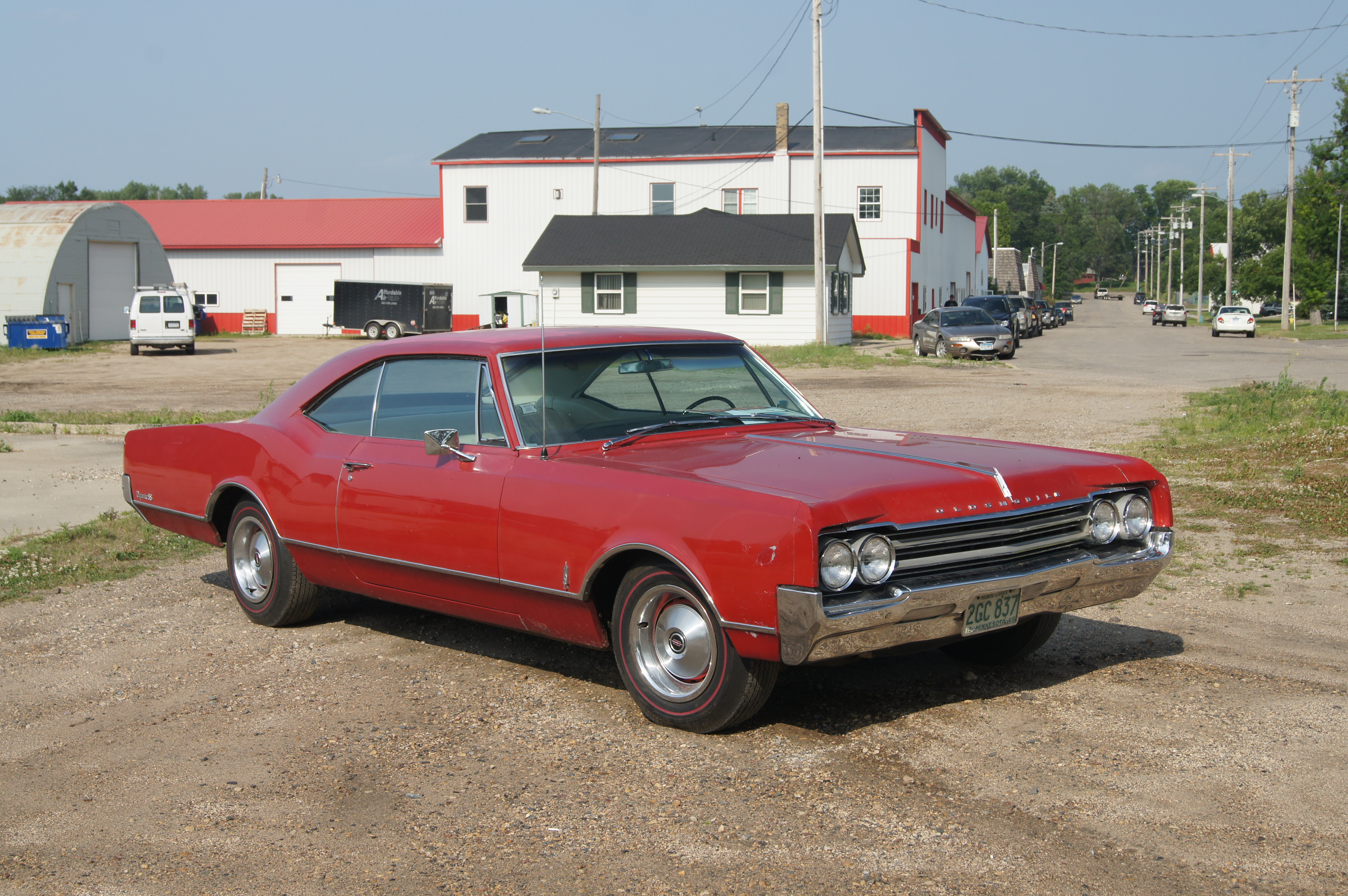 Click here for more car pictures at my Flickr site.